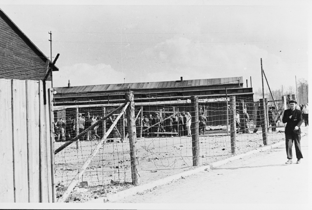 View of a fenced off section of the Buchenwald concentration camp soon after the liberation.